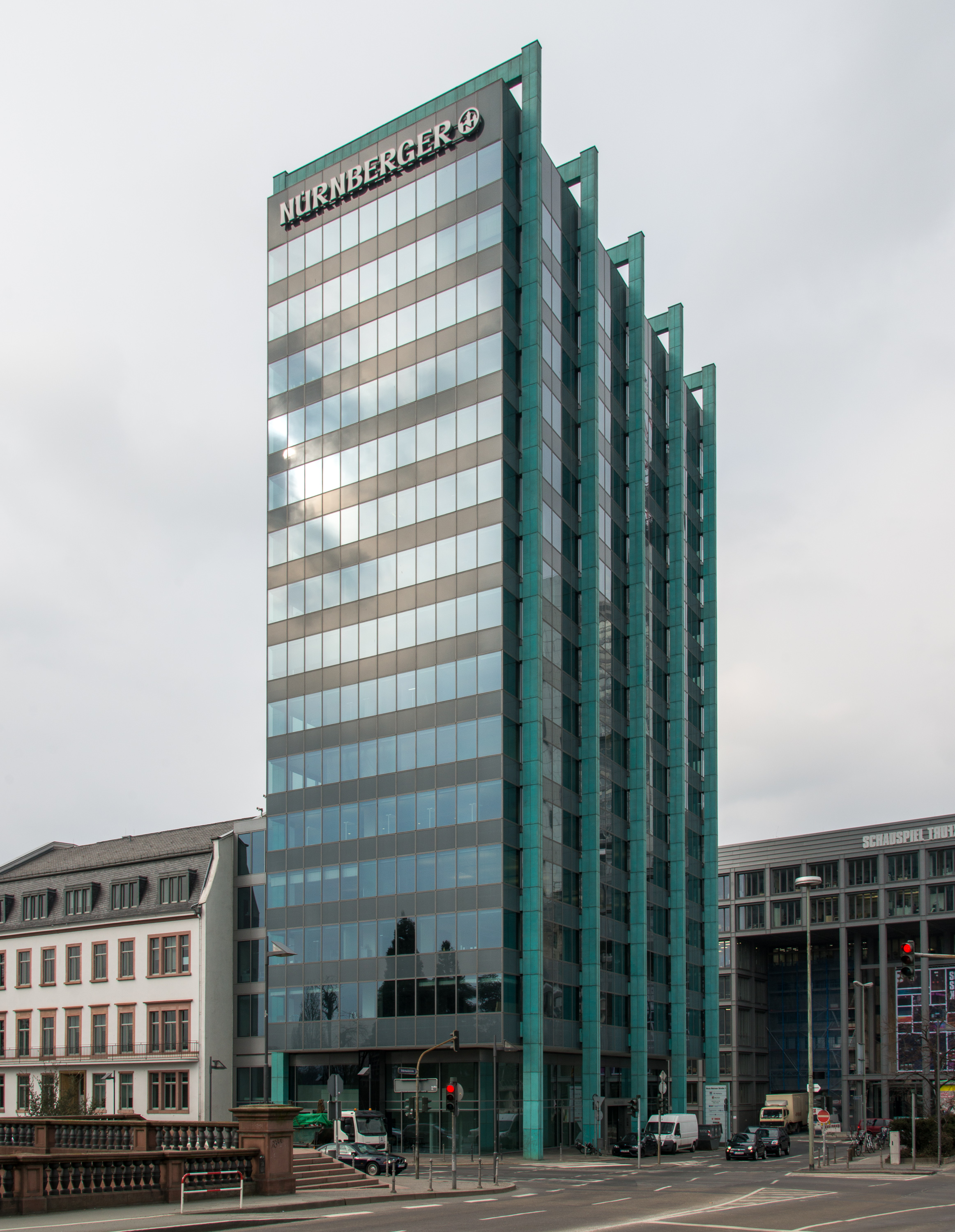 Frankfurt am Main, Neue Mainzer Straße 1. Built 1964 for the Schweizerische Nationalversicherung by Max Meid and Helmut Romeick. Cultural monument of the city.